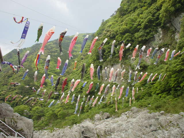 Many Koi banners strung across a canyon in Central Shikoku, Japan.